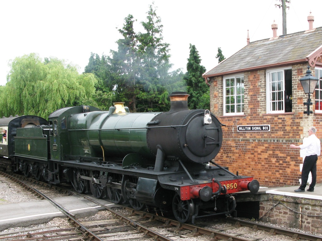 The signalman at Wiliton station on the West Somerset Railway. England, prepares to collect the single line token from the fireman of GWR 2284 Class number 3850 which is arriving from Bishops Lydeard.